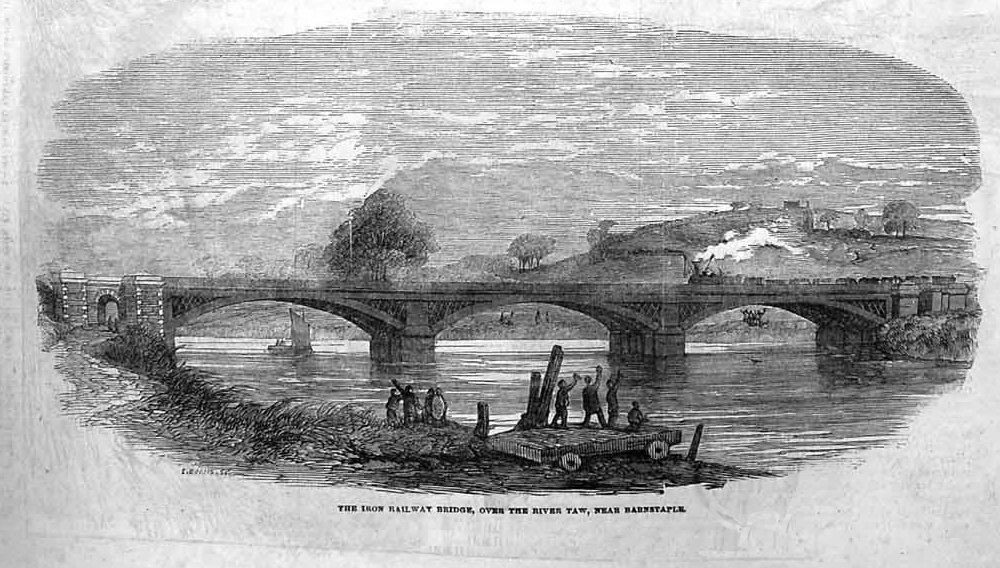 The Barnstaple iron railway bridge over the River Taw Devon England 1854